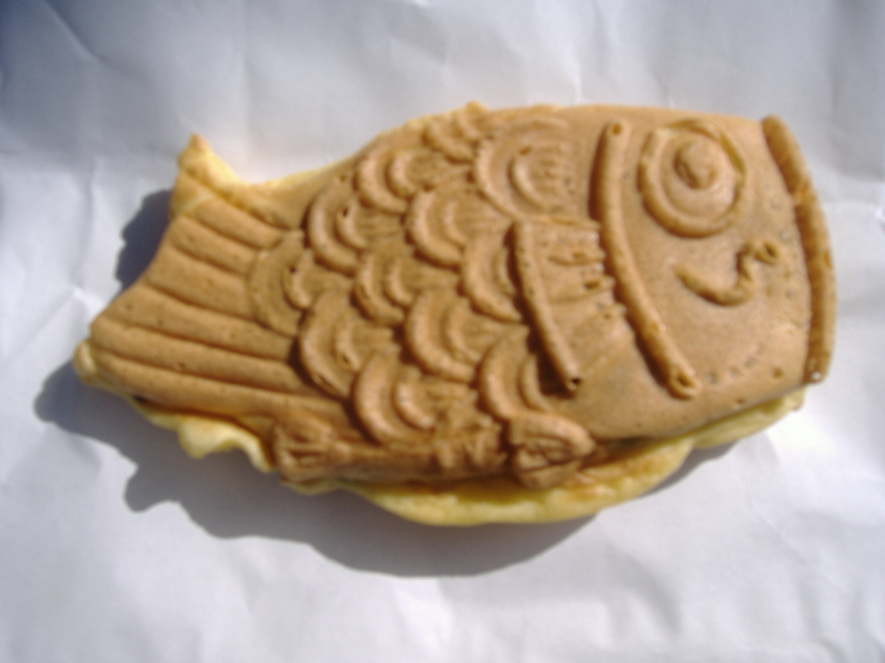 kazo(Saitama, Japan) style Taiyaki,"Koinoboriyaki"